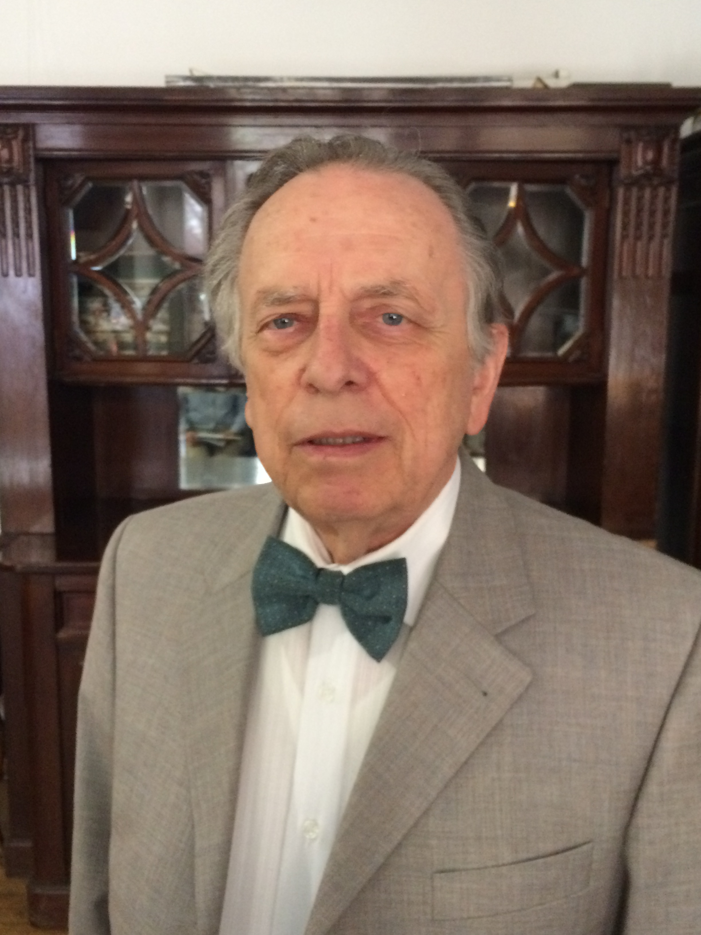 Anatoliy Konchakovskiy, founder of Mikhail Bulgakov museum in Kiev.